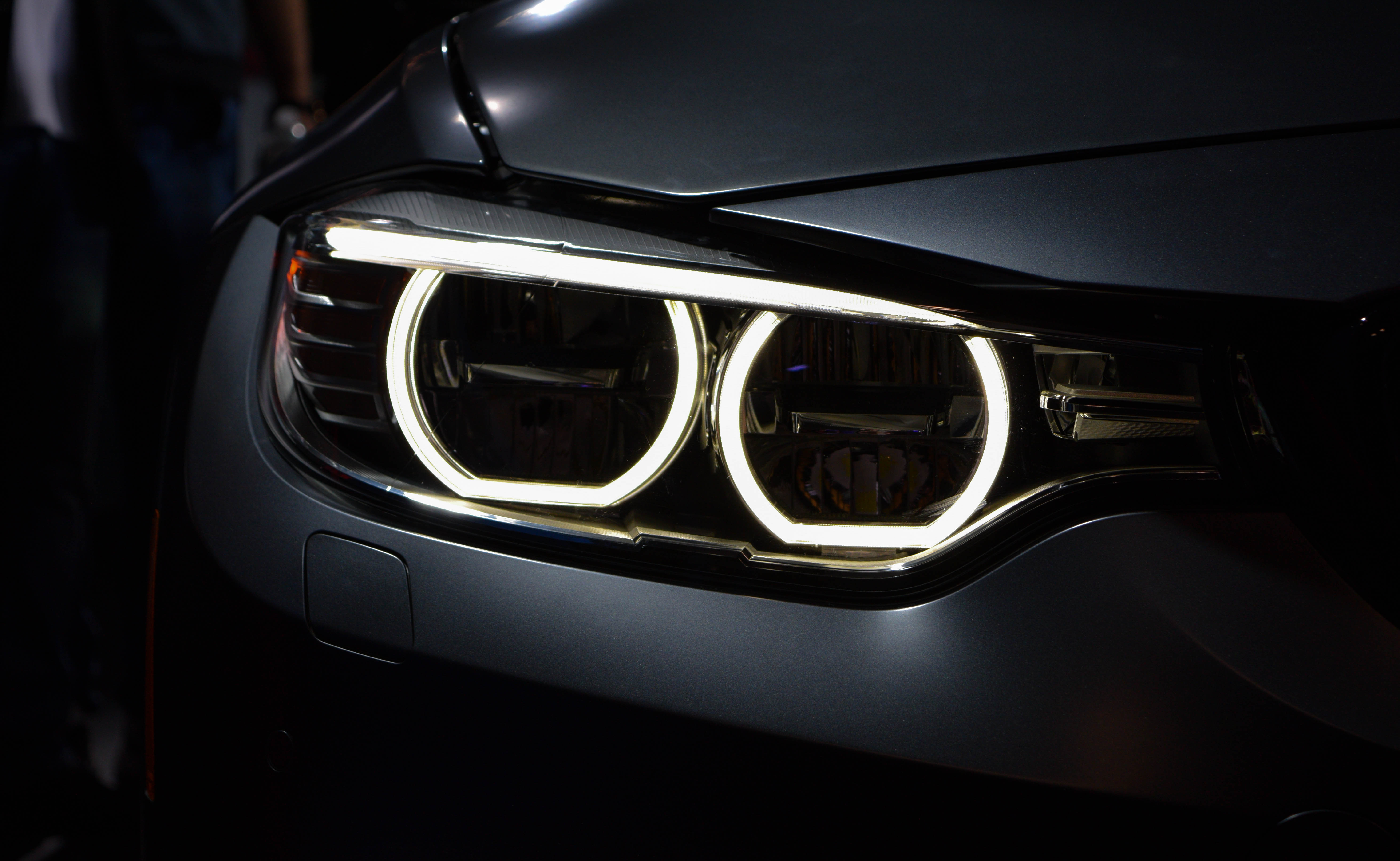 The aggressive headlights of the BMW M4 GTS at the 2016 New York Auto Show.